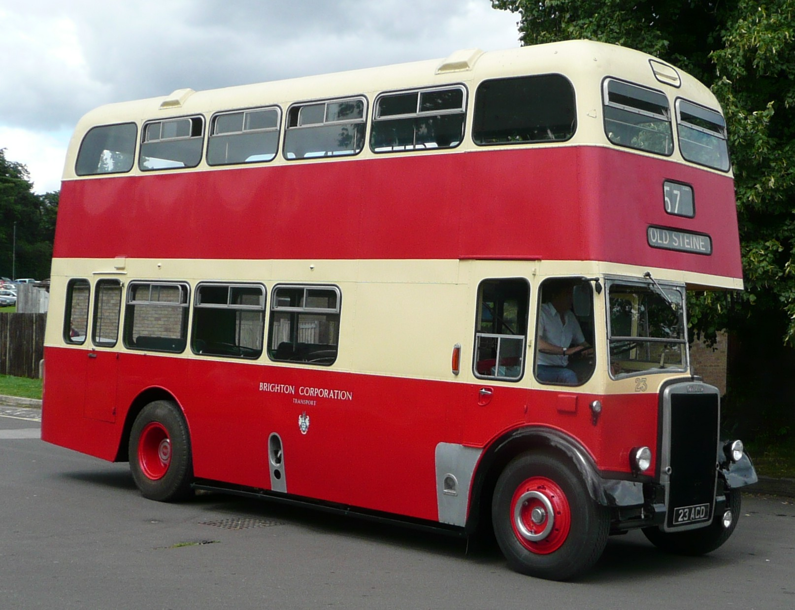 Preserved Brighton Corporation 23 (23 ACD), a Leyland Titan PD2/Weymann, at the 2008 Alton bus rally at Anstey Park.